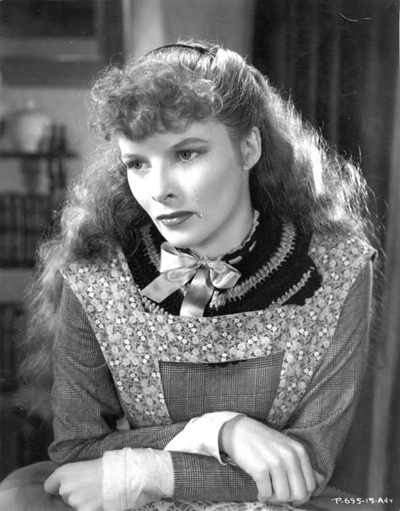 Publicity still of Katharine Hepburn in the 1933 film Little Women. Such images were taken on set during filming, or as part of an organized photo-shoot, by a studio photographer. They were then disseminated to the media and the public to promote the film. (see Film still) This is definitely a publicity still as the quality is too high (for comparison, see this screenshot from the film) and a stock code can be seen in the right hand corner. Public domain explanation Despite the presence of a stock code, this photograph does not contain the copyright symbol ©, the word "Copyright", or the abbreviation "Copr.", as then required for copyright. By publishing a photograph without such a notice, under the terms of the 1909 Copyright Act (which was law until 1978) the image went into the public domain. If there is any chance that the photograph was copyrighted, under the terms of the 1909 Copyright Act it would have had to be renewed 28 years after publication. A search for copyright renewal records of 1961 ([1], [2]) reveal no trace that this occurred. Film industry author Gerald Mast has written: "According to the old copyright act, such production stills were not automatically copyrighted as part of the film and required separate copyrights as photographic stills ... Most studios have never bothered to copyright these stills because they were happy to see them pass into the public domain, to be used by as many people in as many publications as possible." (Film Study and the Copyright Law (1989) p. 87.)